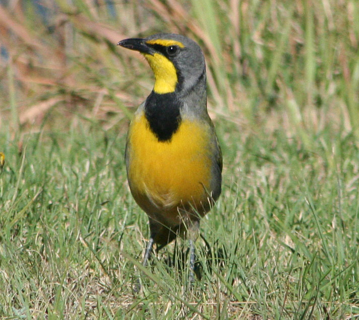 Bokmakierie, Telophorus zeylonus, taken at Drakensberg, South Africa, 2007/4/28.